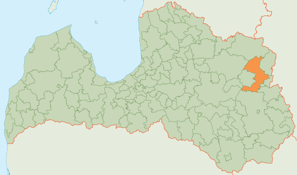 Map of Balvi